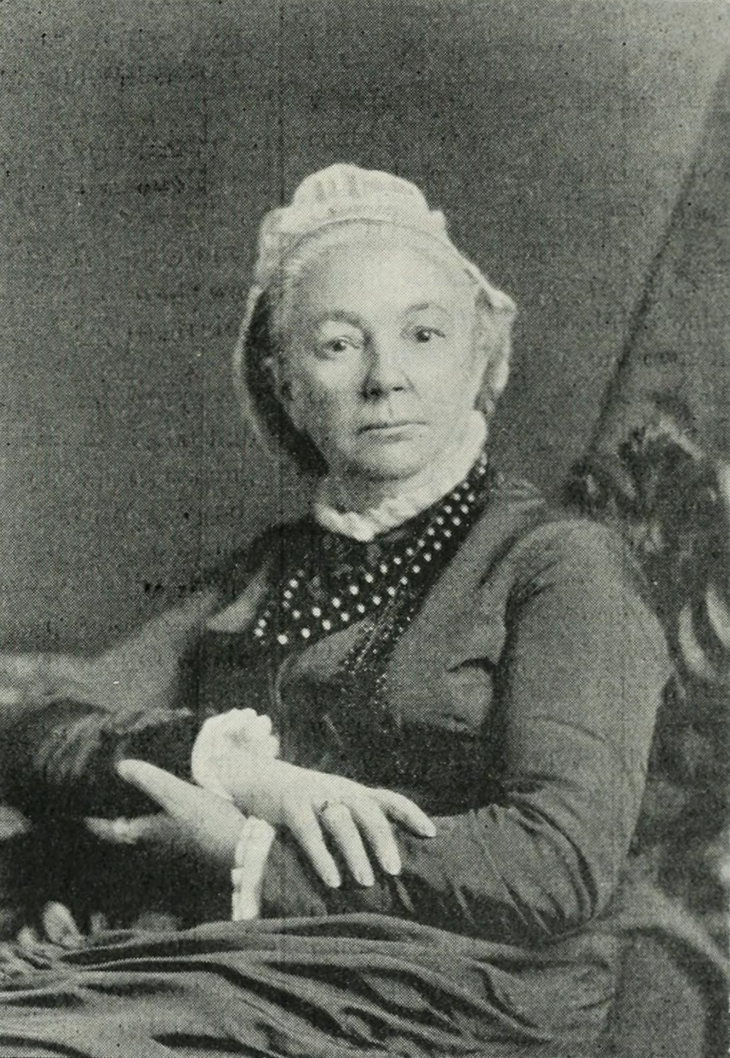 Picture of Margaret Oliphant